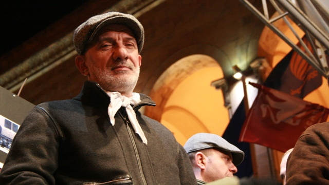 April 10, 2009... Goga Khanidrava, in front of Parliament building